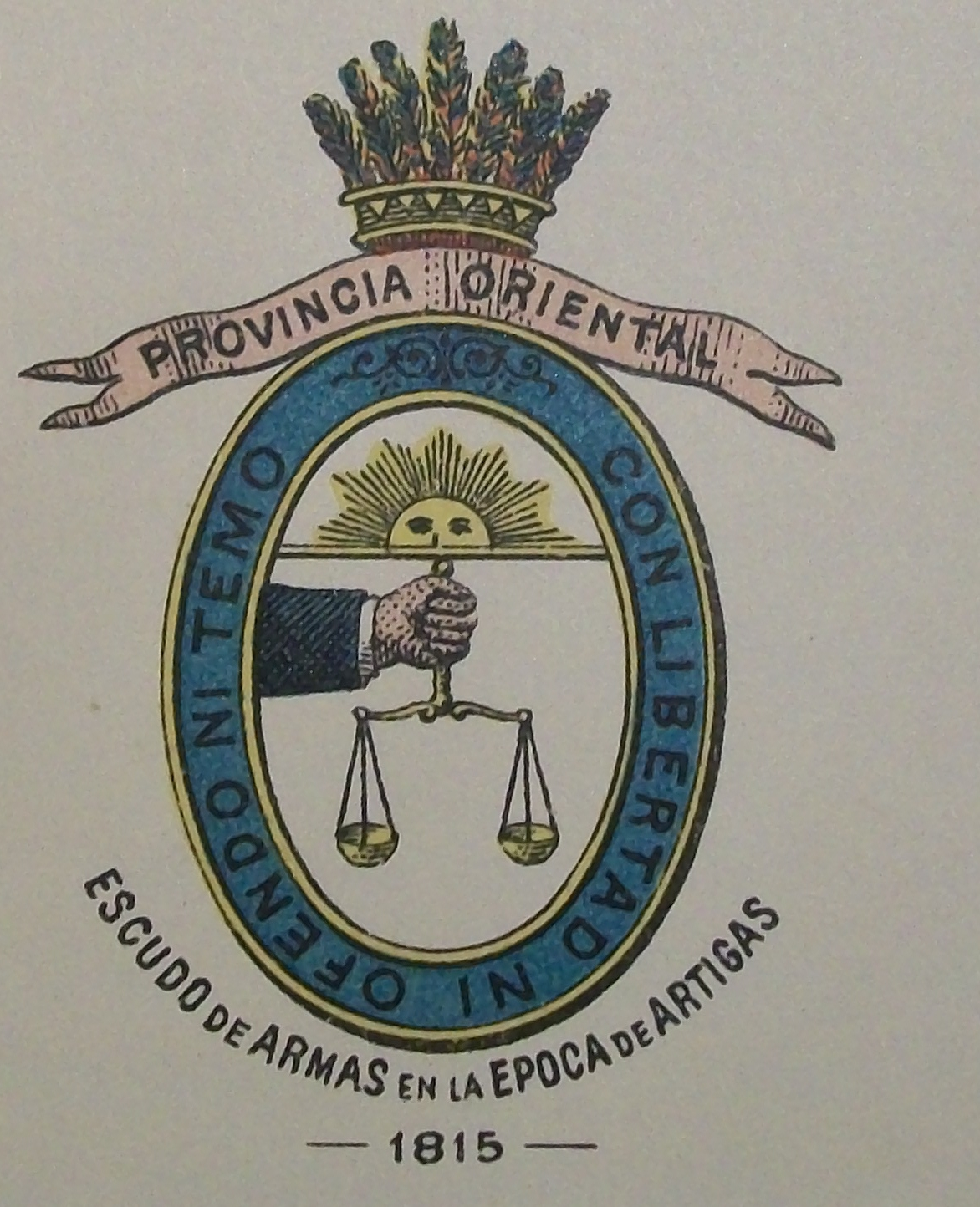 Coat of arms of the Oriental Province.